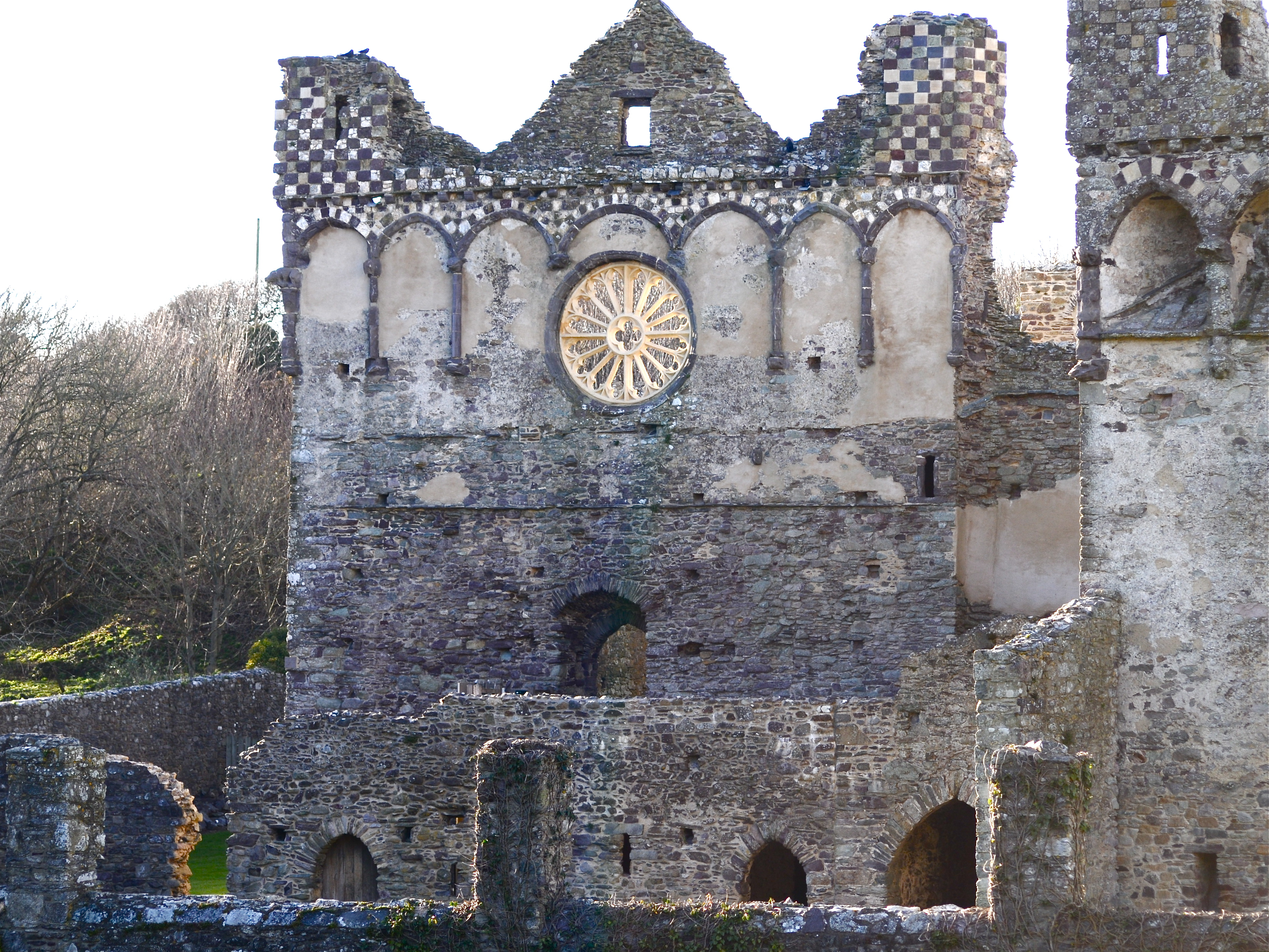 Facade in ruined Bishops Palace at St Davids.